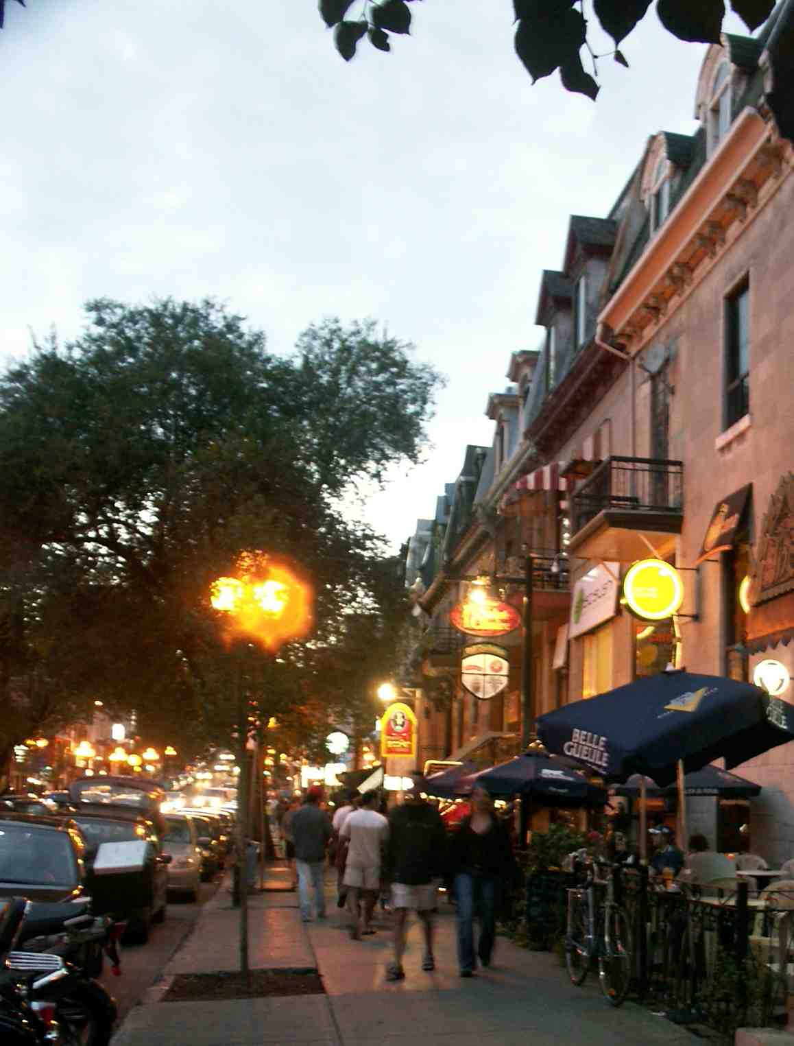 Saint-Denis Street in Quartier Latin, Montréal, September 2005. Pictured on the right with the blue umbrellas is Le St-Ciboire.